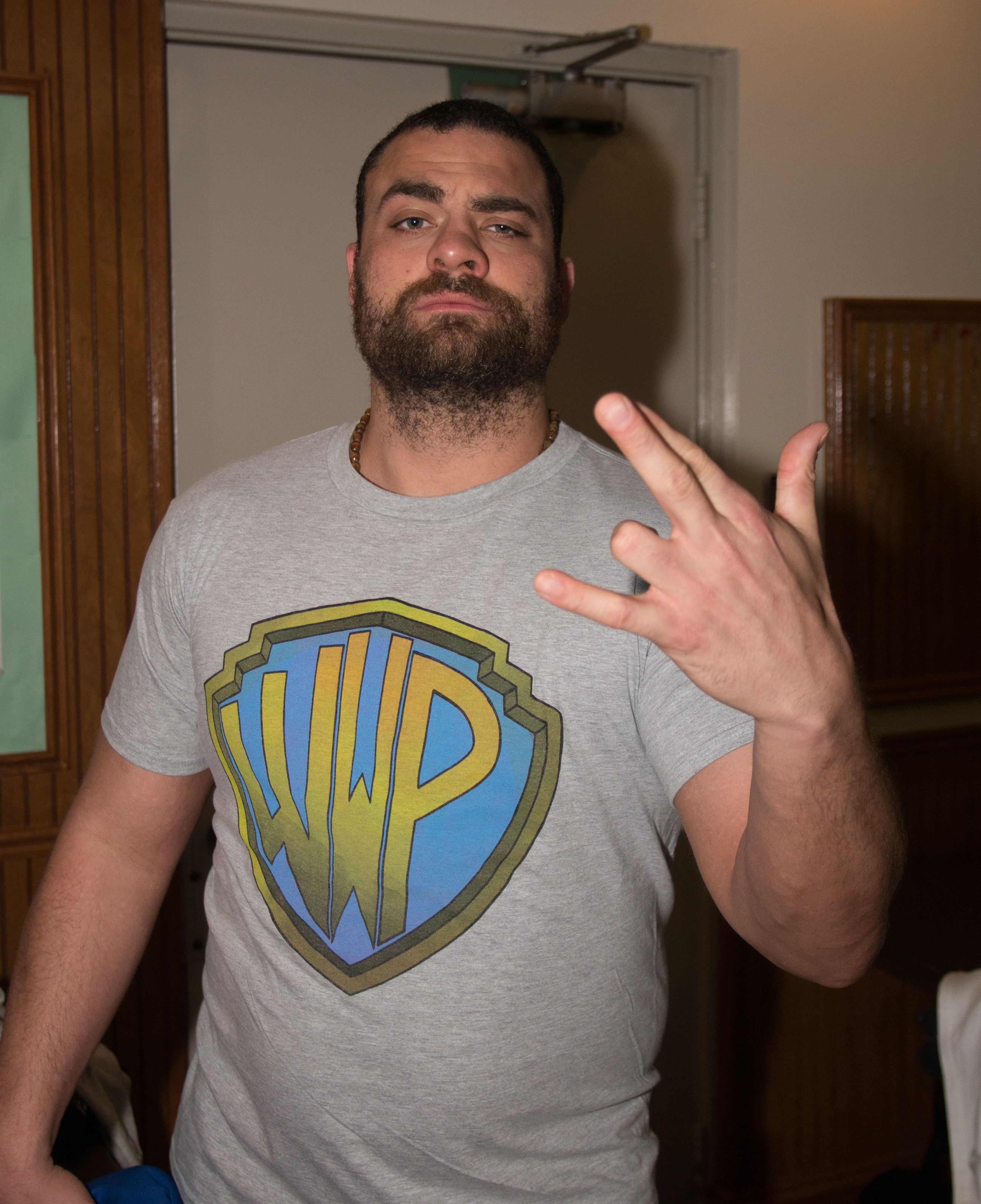 Eddie Kingston backstage at Alpha-1 Wrestling's Watch the Throne 3 in Hamilton, ON